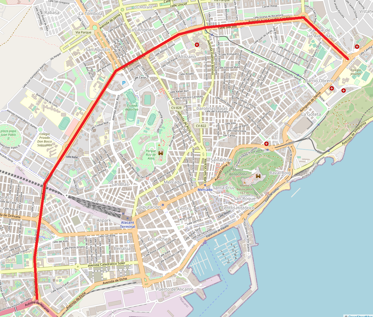 This maps shows in red the path of Gran Vía avenue in the city of Alicante, Spain Screenshot of the map of Alicante, Spain This map of Alicante was created from OpenStreetMap project data, collected by the community. This map may be incomplete, and may contain errors. Don't rely solely on it for navigation.